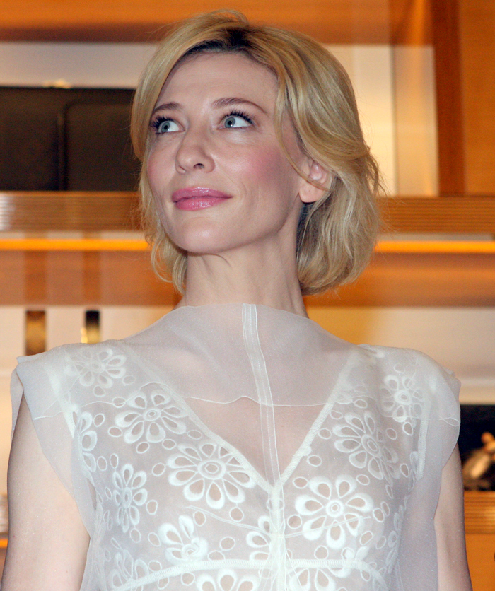 Louis Vuitton - Cate Blanchett 2011.